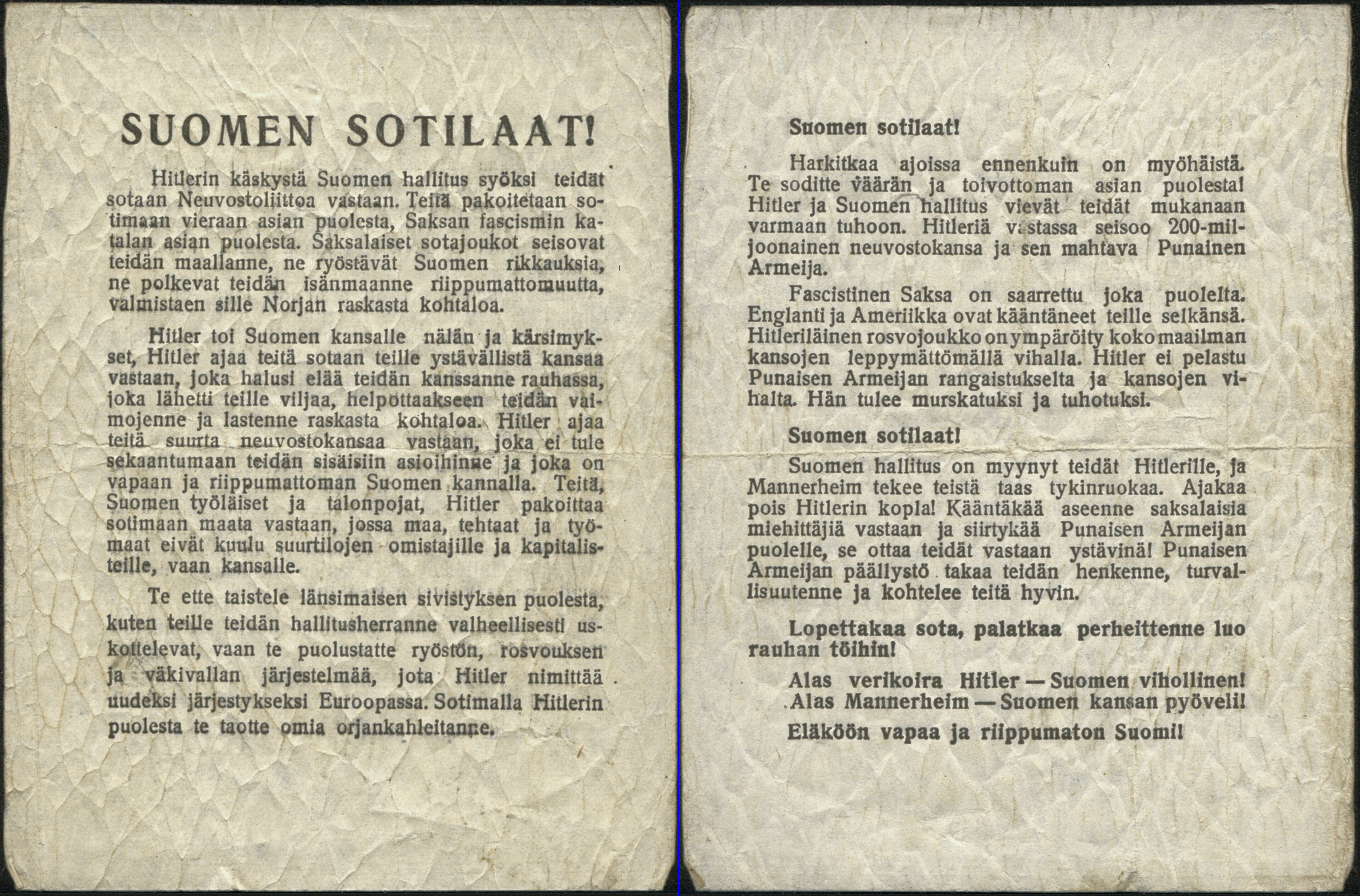 This photo shows a leaflet probably dropped to Finland from an airplane during the Second World War. The leaflet obviously originates from Soviet Union. Size: 95 mm * 125 mm